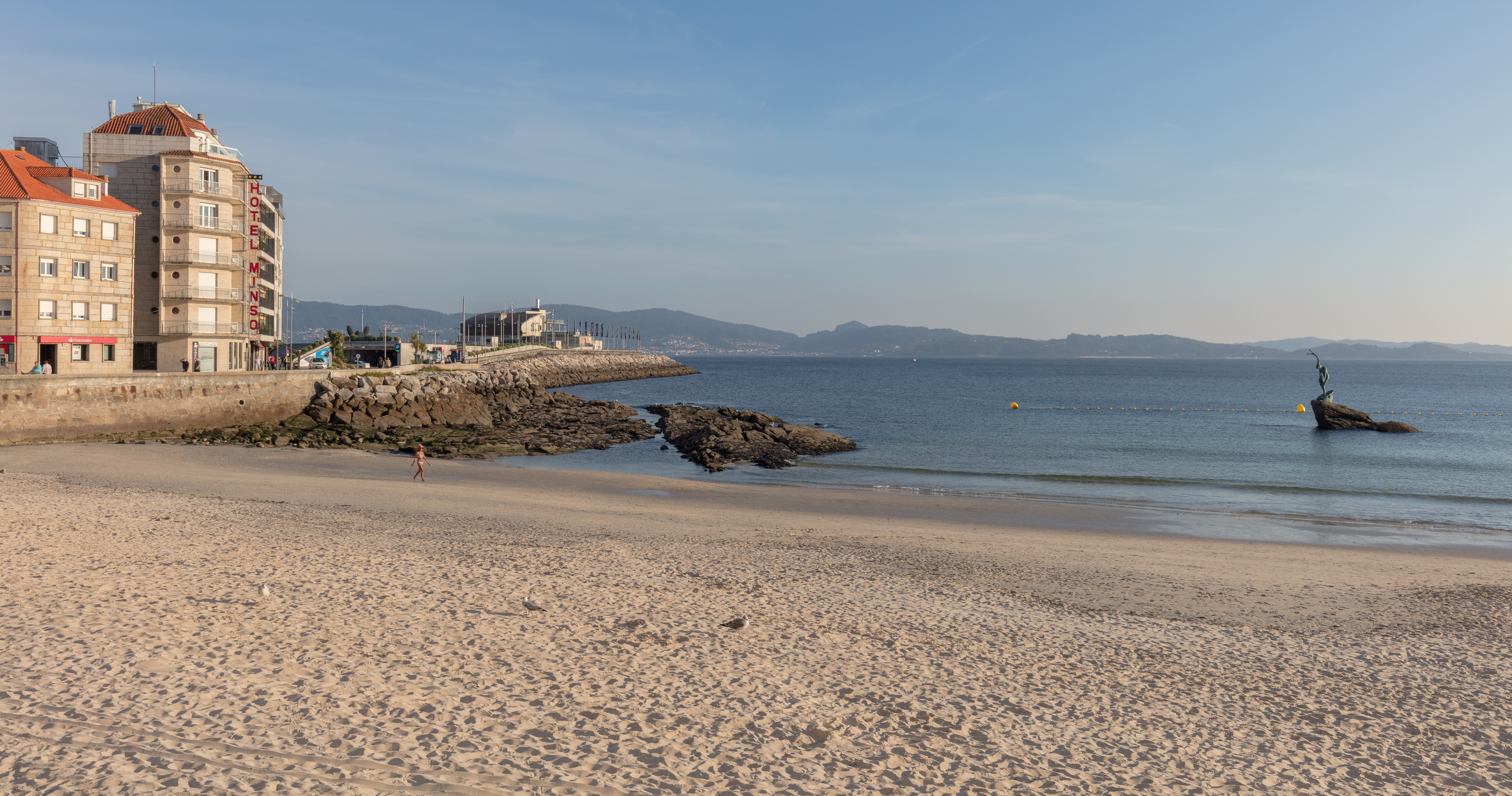 Beach of Silgar, Sangejo, Pontevedra, Spain